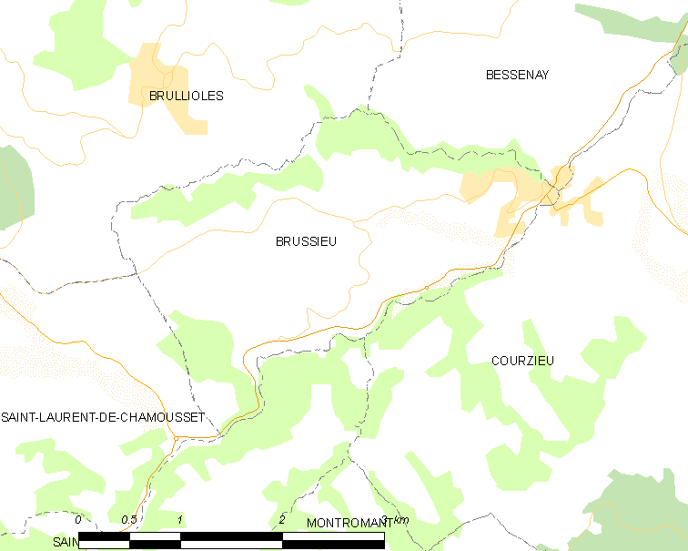 Map of French municipality